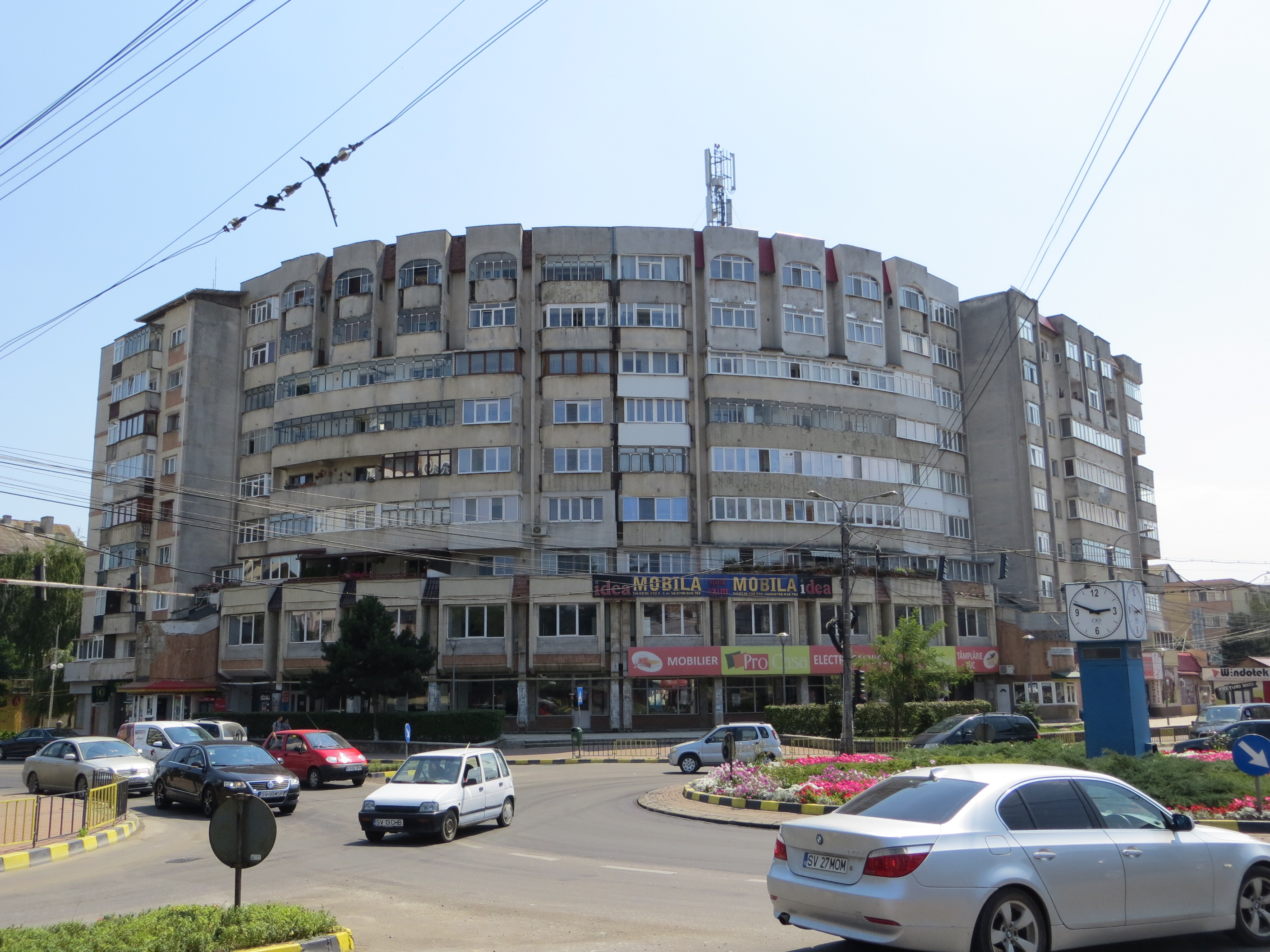 The roundabout in the centre of Burdujeni neighbourhood, Suceava.